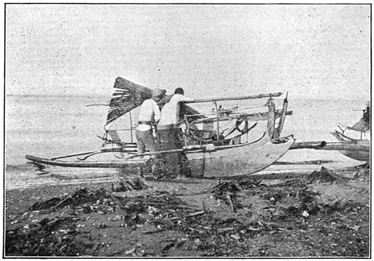 A Moro vinta outrigger canoe